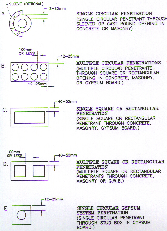 This drawing is intended to illustrate common guidelines for the forming of through-penetrations such that proper sizing and costing for firestops can occur. In the case of sleeving, which is limited to fire-separations made of concrete and masonry, the mechanical and electrical trades are responsible for the sizing of the openings because they apply the sleeves. In the case of drywall fire separations, the opening size is determined by the drywall contractor, unless the mechanical and electrical trades are contractually obliged to provide sleeving here as well, with proper fastening methods that must be subject to bounding. All trades shall can use this guideline. This permits accurate priceing as well as accountability for field variances. Exceptions are penetrations in timber floors. Often, timber floor openings are simply cut by means of a chainsaw. In this case, the width of the blade will determine sizes. Sizing of all openings has significant impact upon bounding. Therefore, communication between all affected trades is of great importance before any openings are made.